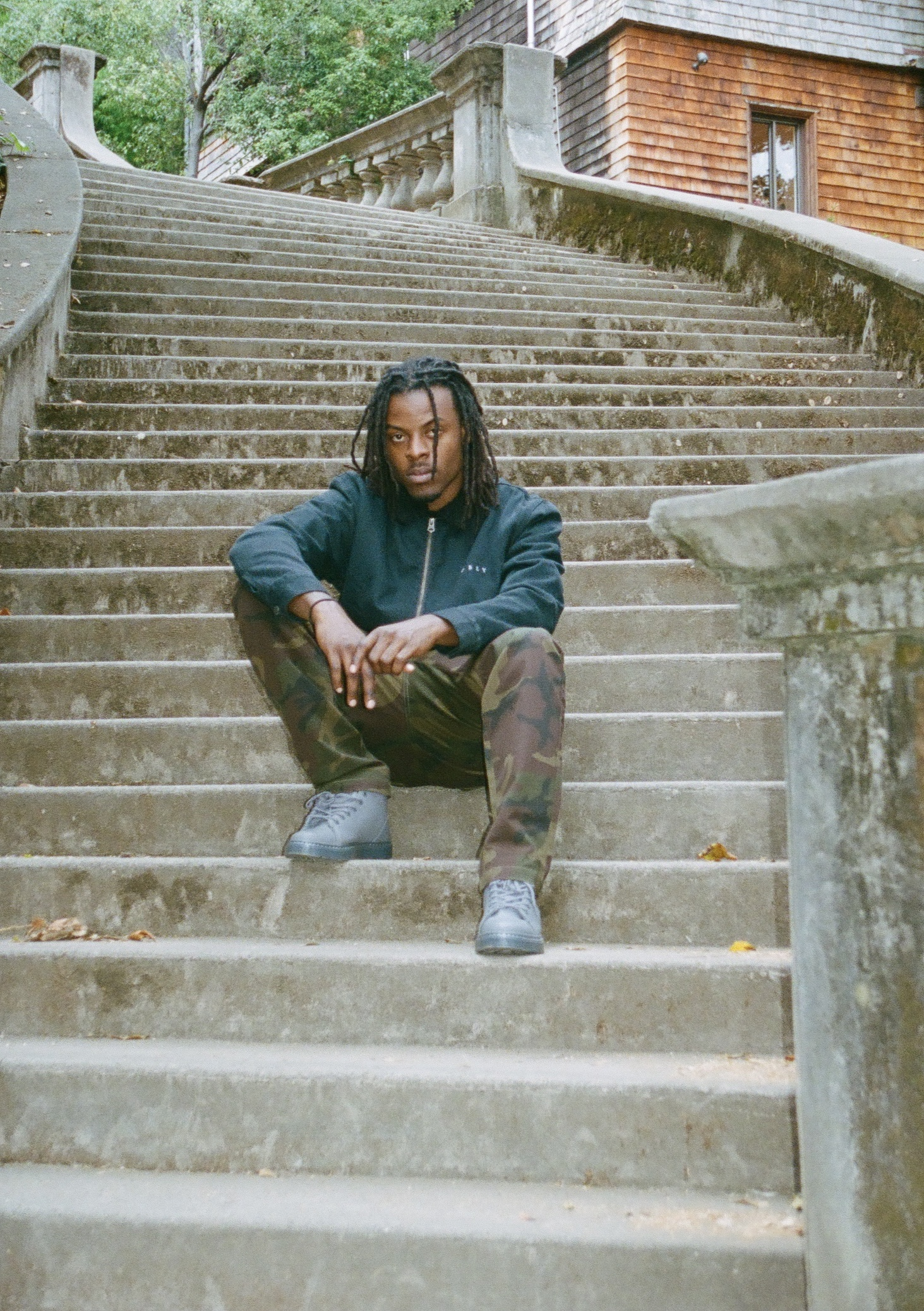 rapper Myl3z sits on a step on Orchard Lane in Berkeley - July - 2019